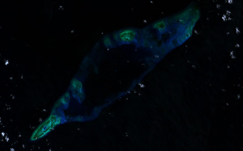 LANDSAT image of Fiery Cross Reef, Spratly Islands, South China Sea